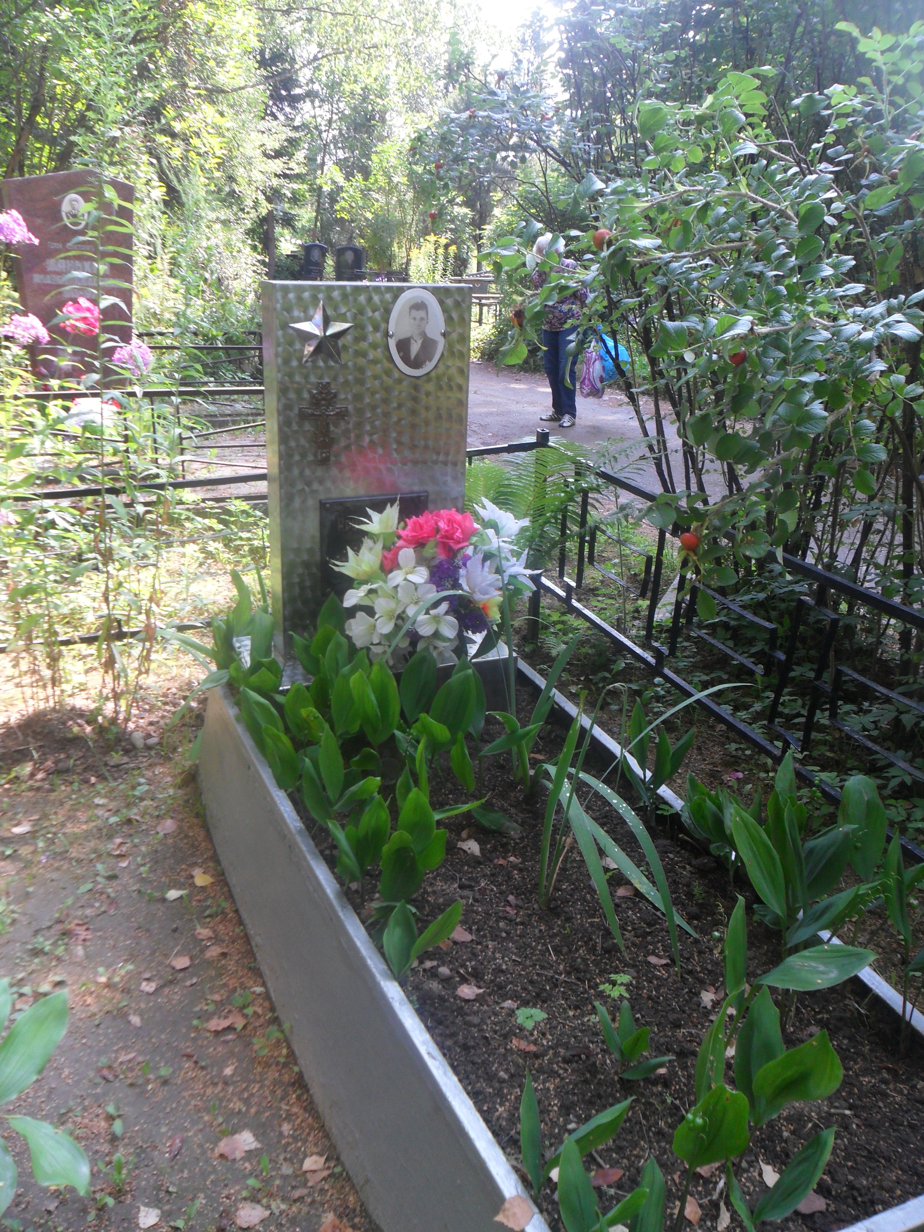 Tomb of the Chevalier of the Order of the full glory of Ivan Kruzhnyakov on the New cemetery of Smolensk.